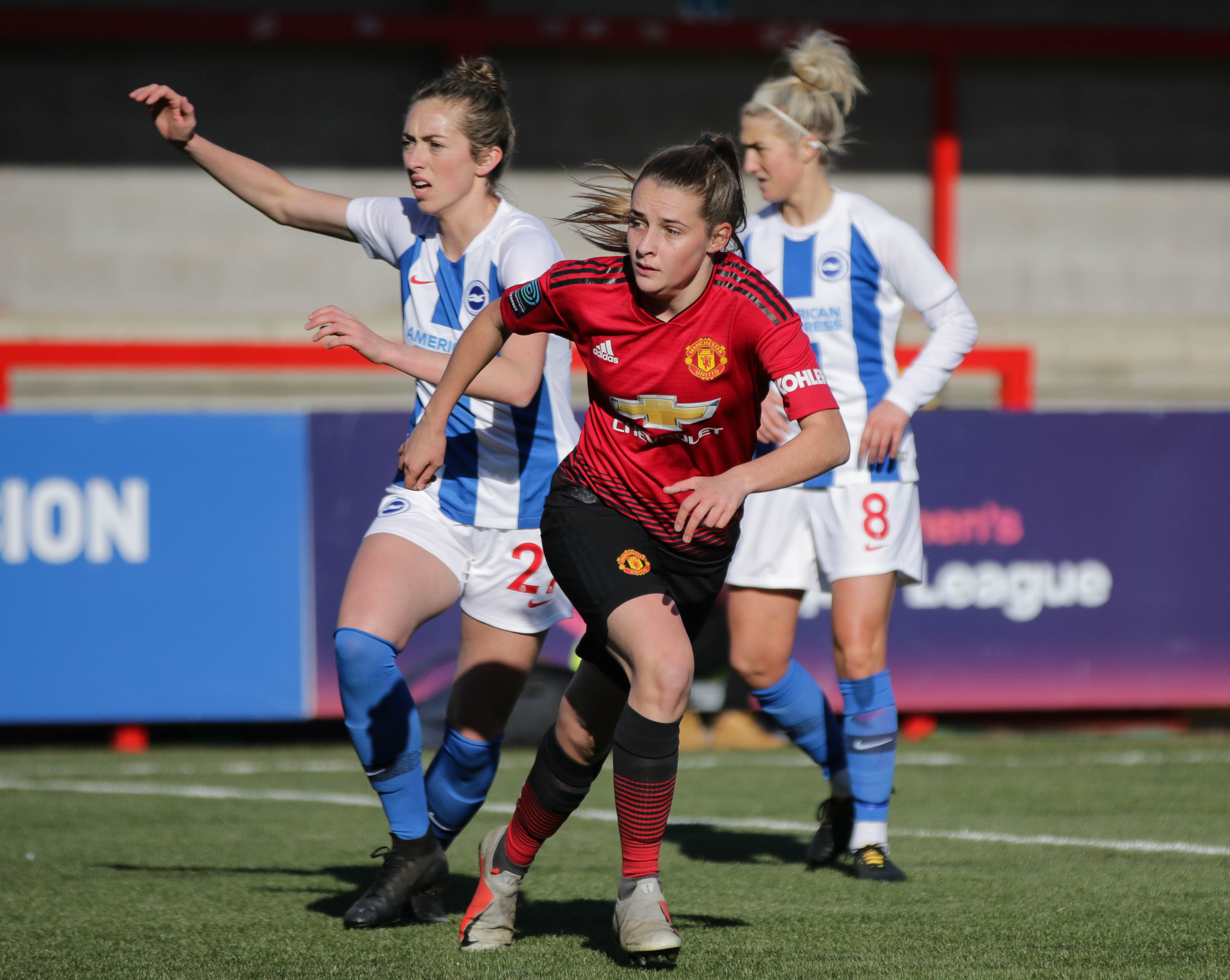 Megan Connolly, Ella Toone, Kirsty Barton